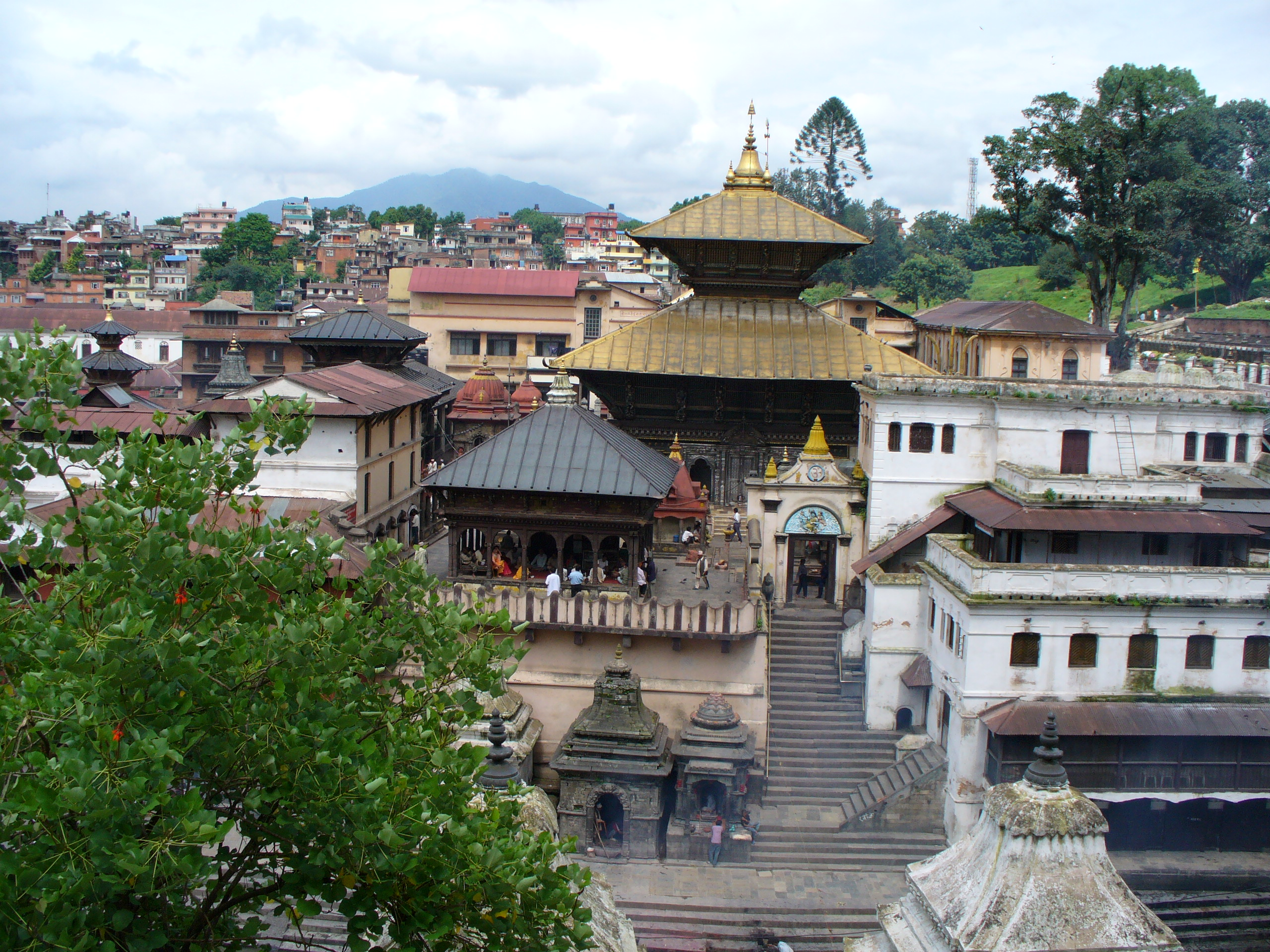 Part of Pashupatinath, which is only accessible for believers of the faith hindhuism